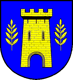 Coat of arms of Tornesch Blasonierung: In Blau ein freistehender goldener Zinnenturm aus Ziegeln mit offenem Tor, beiderseits begleitet von je einem goldenen Eschenblatt.